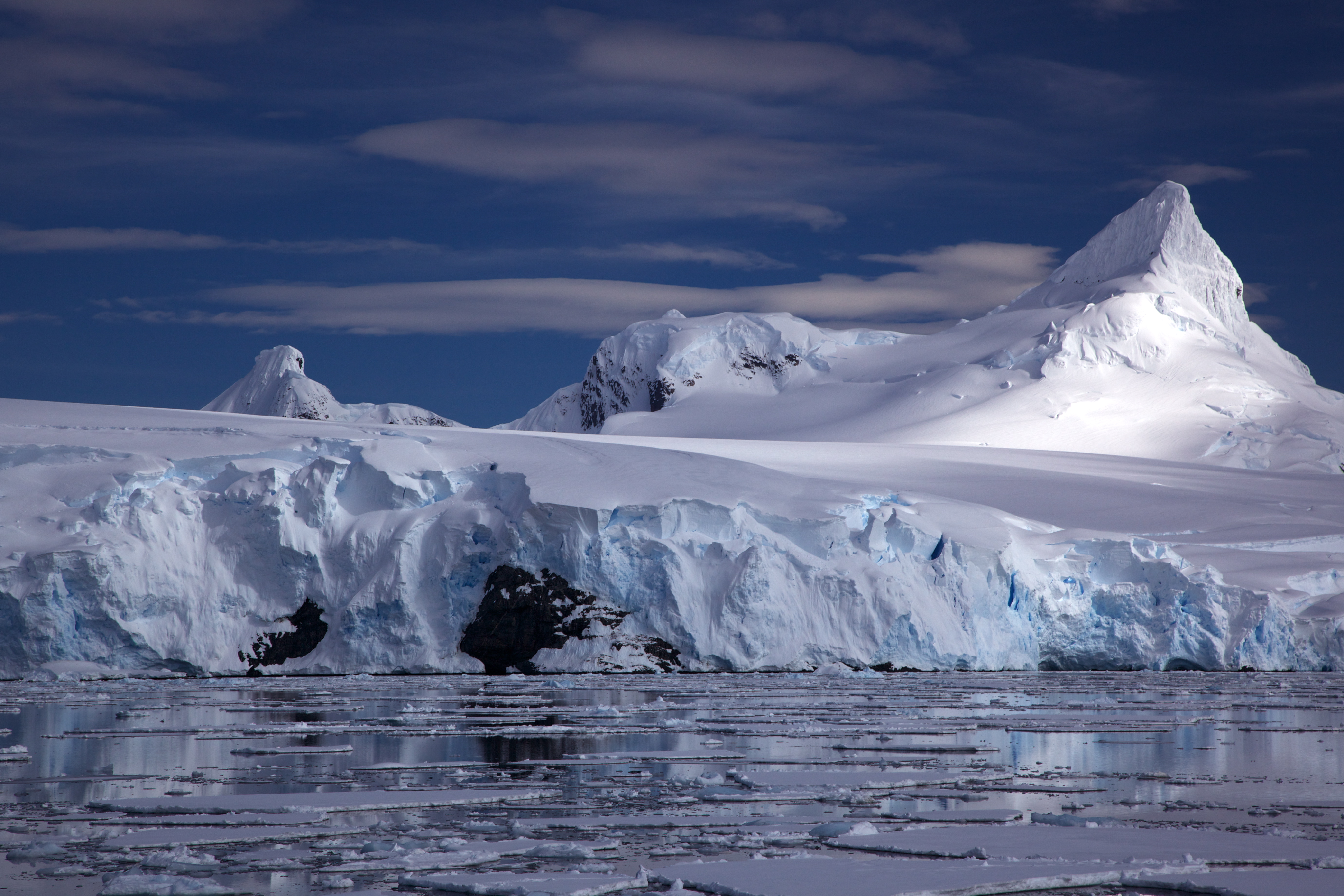 A tidewater glacier on the Antarctic coast, with a sharply peaked mountain behind.